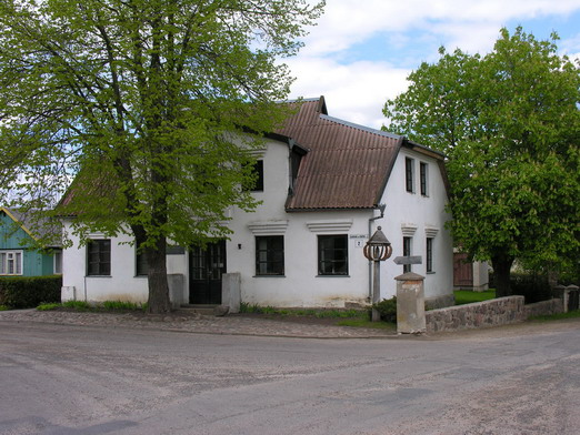 Museum of an authoress Šatrijos Ragana. Photo: Algirdas; 2006-05-17; Židikai